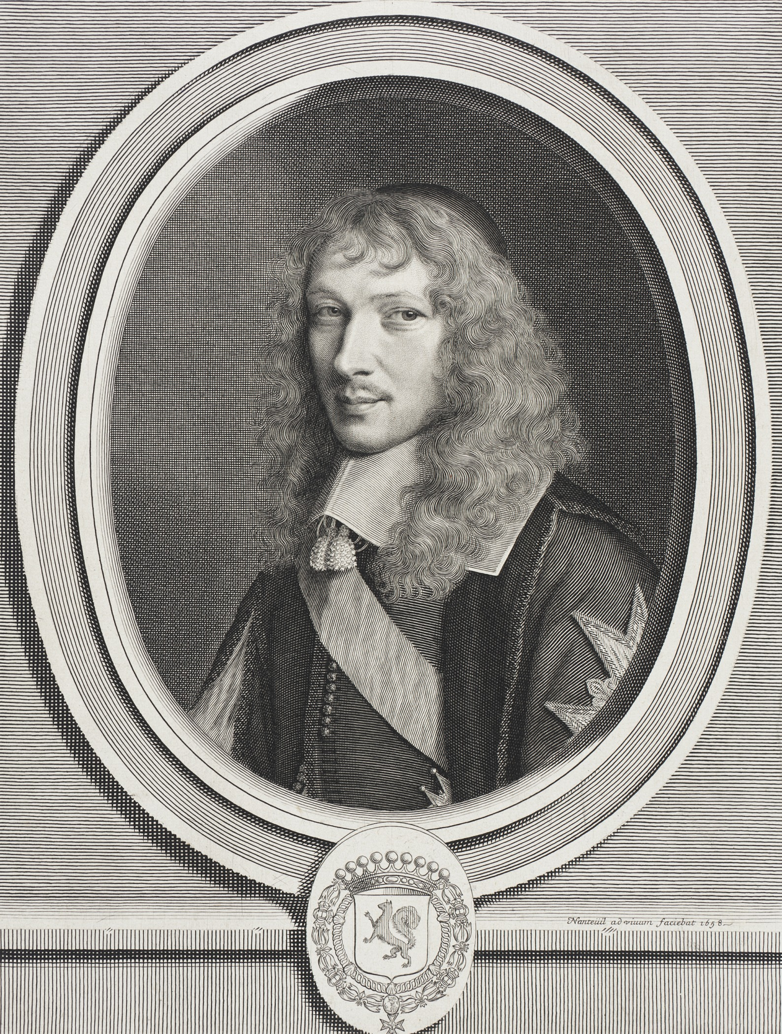 France, 1658 Prints; engravings Engraving Gift of Connie and Ted Harris (AC1992.147.5) Prints and Drawings